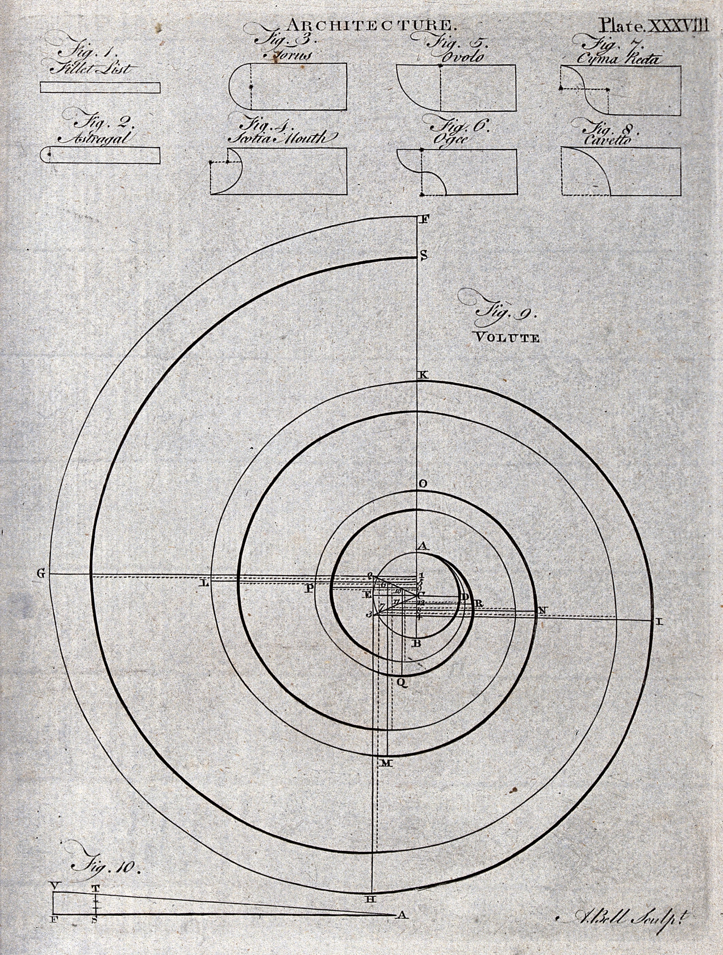 Architecture: an ionic volute and various types of moulding. Engraving by A. Bell. Iconographic Collections Keywords: Andrew Bell